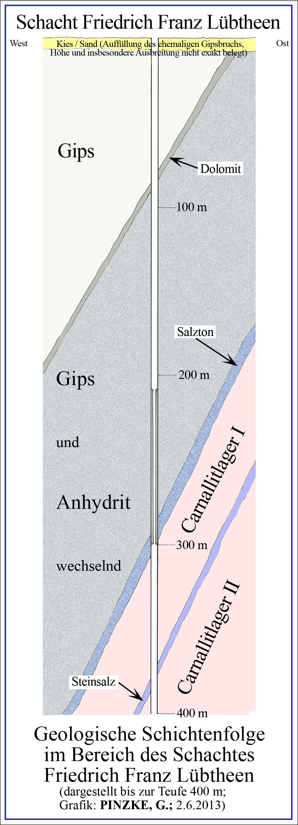 Cross section of mine shaft "Friedrich-Franz". Lübtheen, Mecklenburg-Vorpommern, Germany.